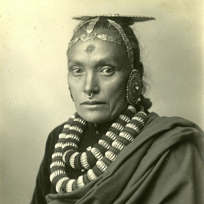 Nepali woman in Darjeeling studio ca 1900 AD; cultural Hilly woman, racially Indo Aryan woman of Khas group